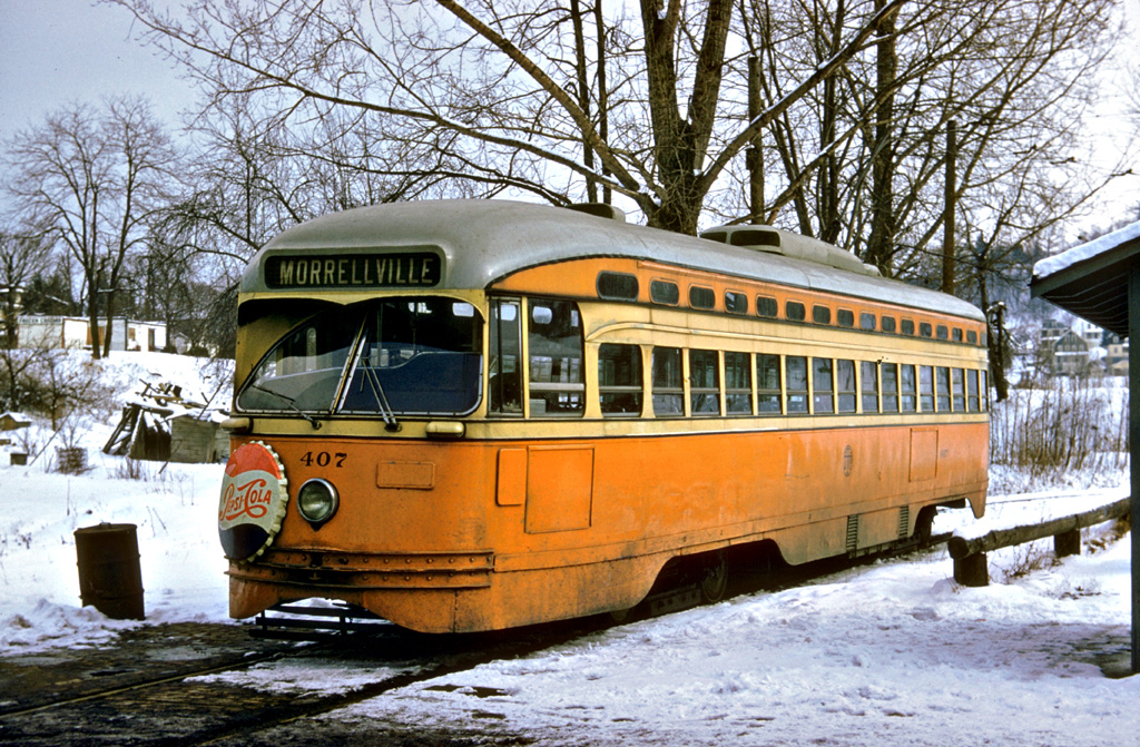 This image was originally uploaded to Dutch Wikipedia by Voogd075 on November 1st, 2005.: «I've taken this photo myself during my visit to Johnstown in 1950-ties.»